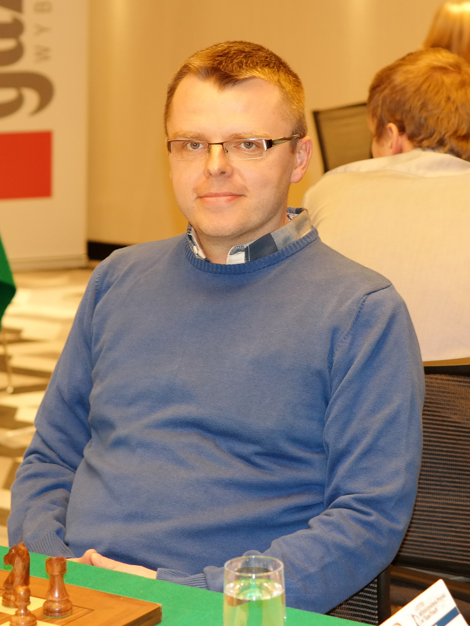 GM Tomasz Markowski, Polish Chess Championship, Warsaw 2014